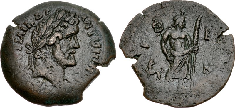 EGYPT, Alexandria. Antoninus Pius. AD 138-161. Æ Drachm (34mm, 16.82 g, 12h). Dated RY 22 (AD 158/9). Laureate bust right, slight drapery / Hermanubis standing right, holding caduceus and long palm frond; jackal to left; L K B (date) around. Köln 1830; Dattari (Savio) 2630; K&G 35.797. Good VF, green-brown patina, slightly irregular flan. Rare.